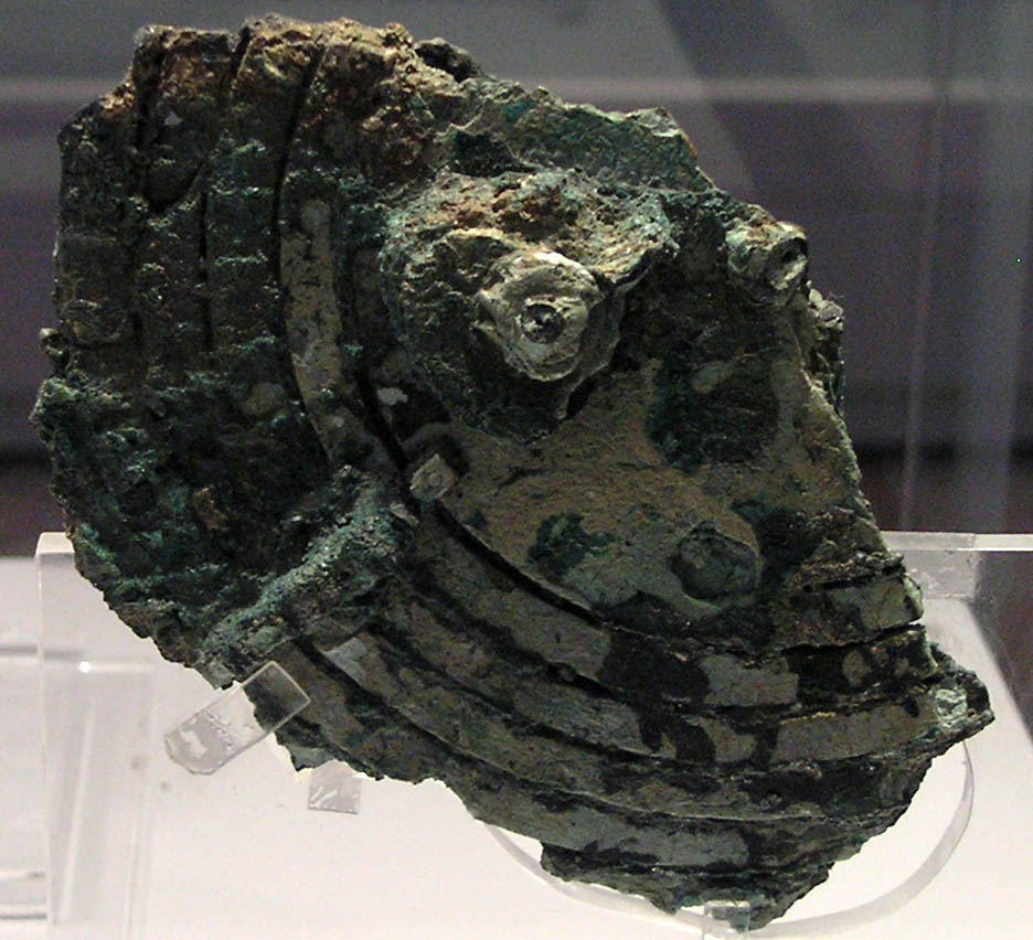 Fragment B of the Antikythera mechanism.